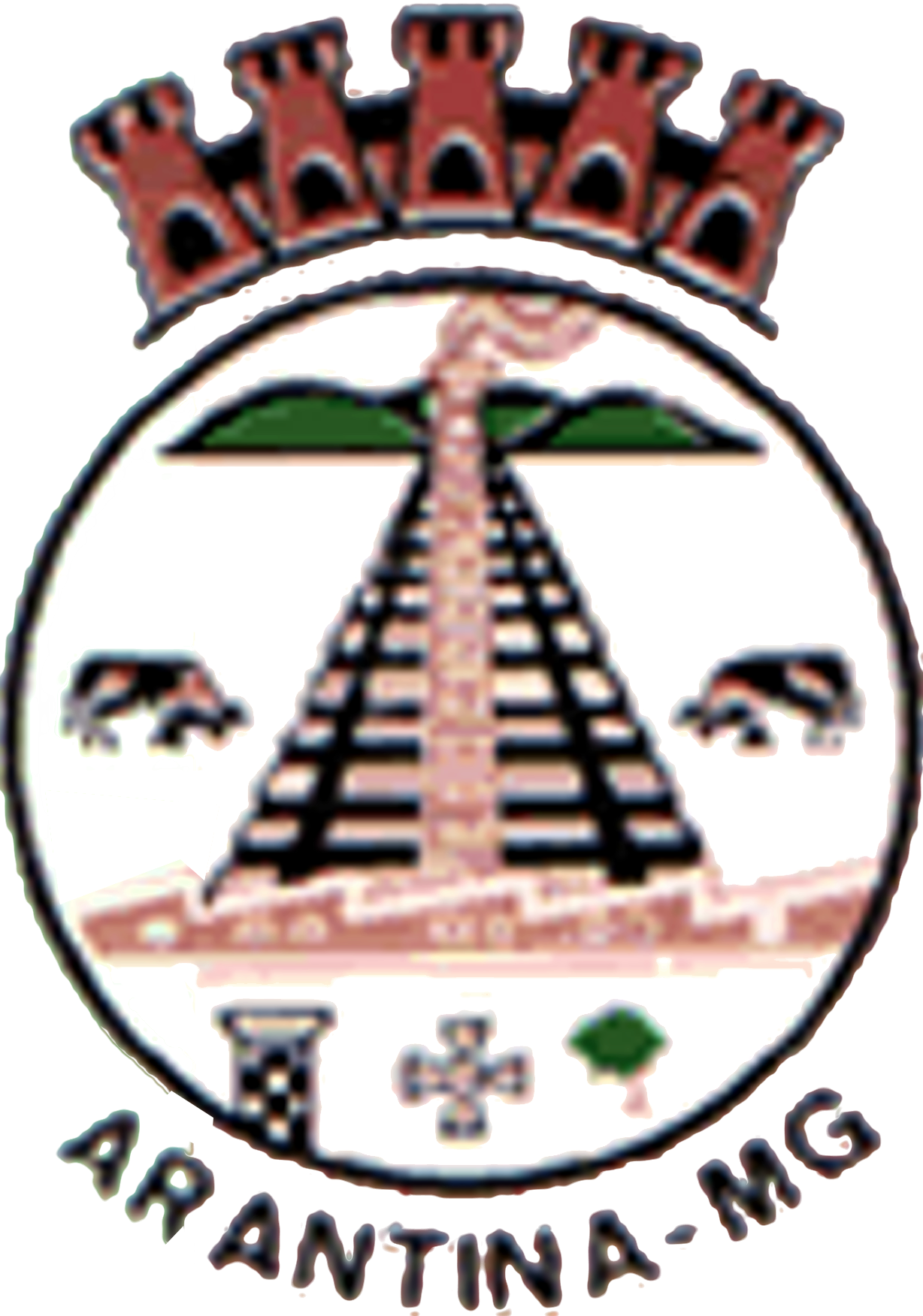 Seal of the city of Arantina Minas Gerais, Brazil